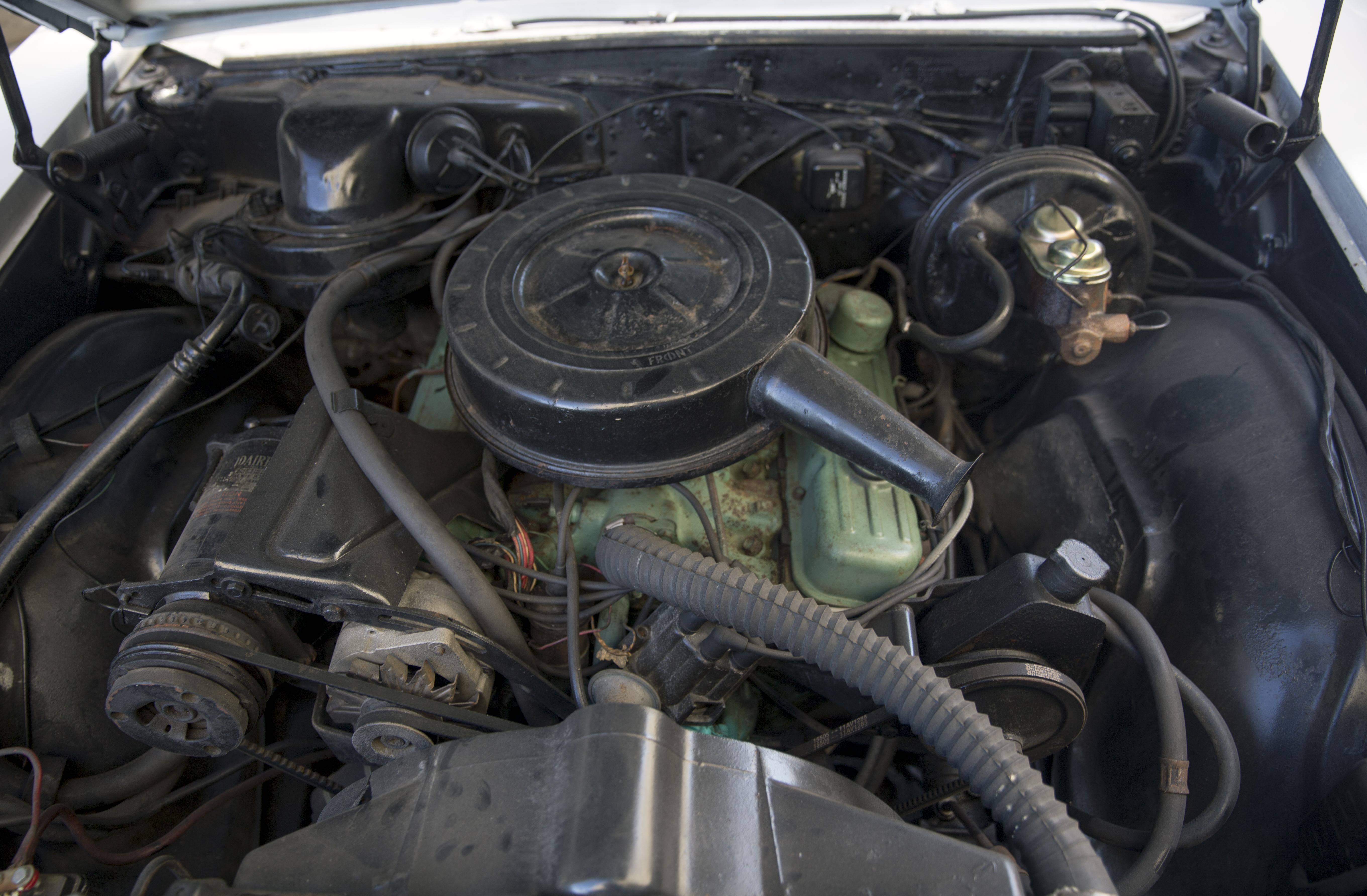 The 300 cubic inch small-block V8 in a 1967 Buick Skylark Convertible. In Brooklyn at a Carpark event.